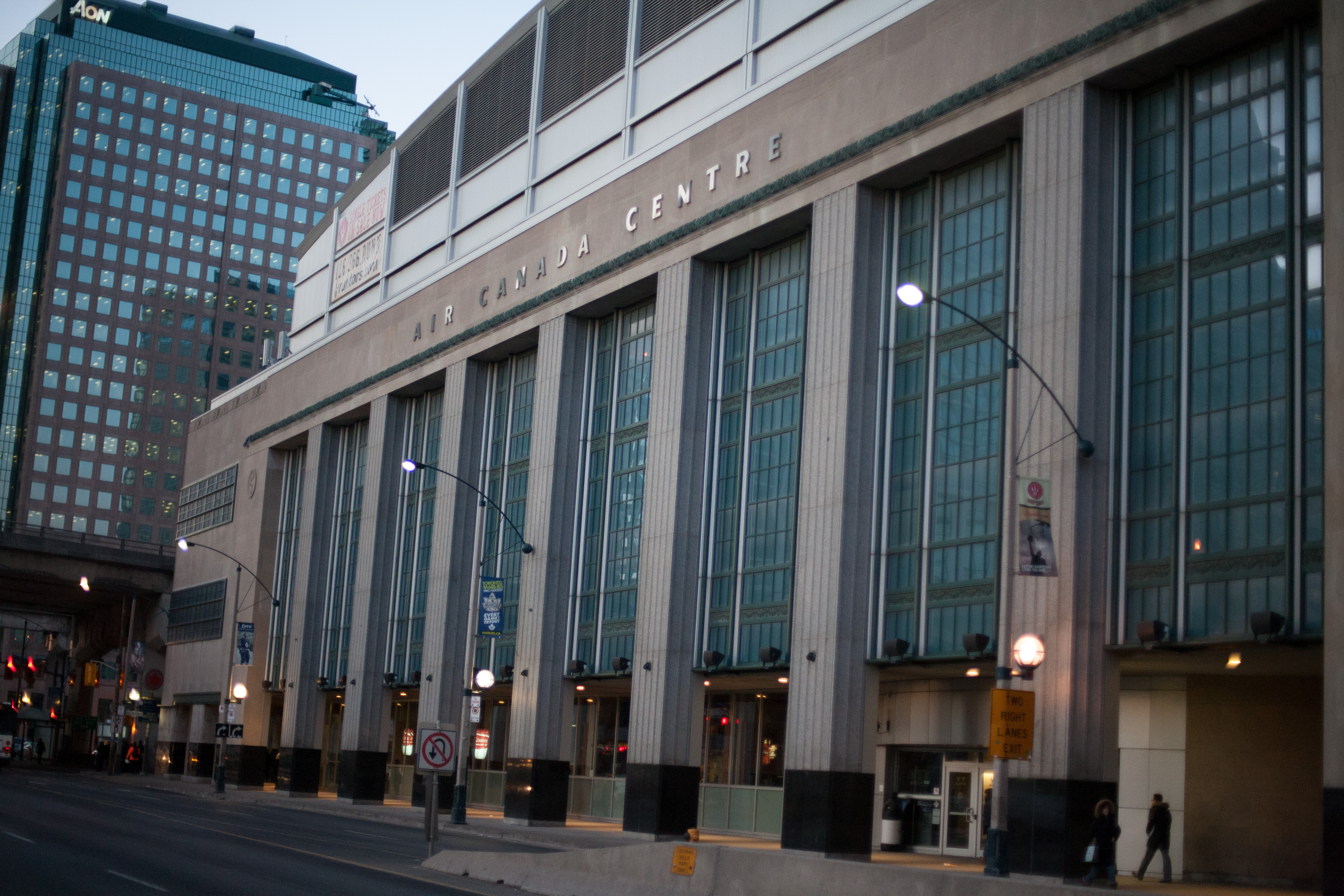 early-morning-toronto-photowalk-with-ludo-20120209-IMG_5056.jpg